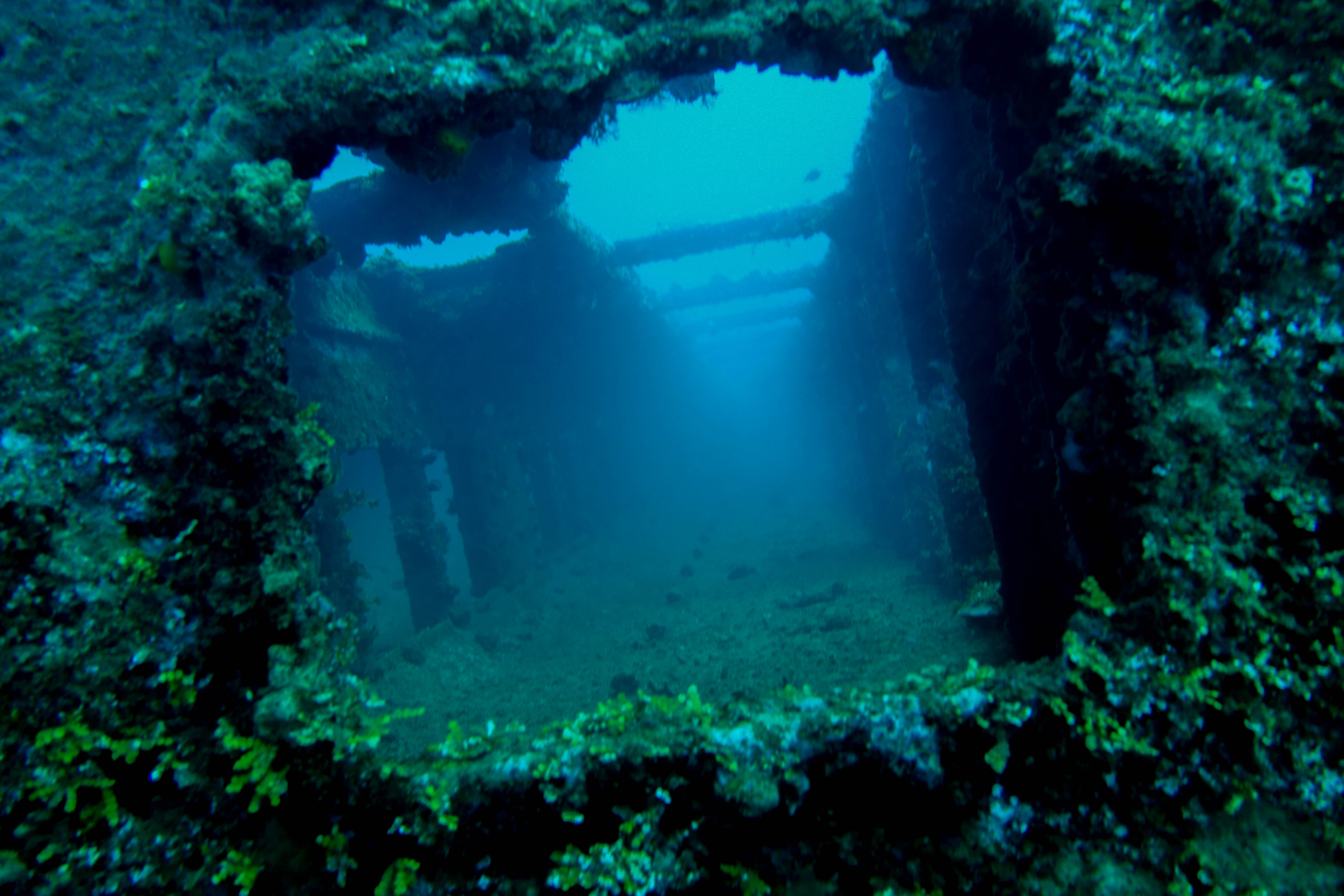 Tokai Maru. Taken while diving in Apra Harbor.